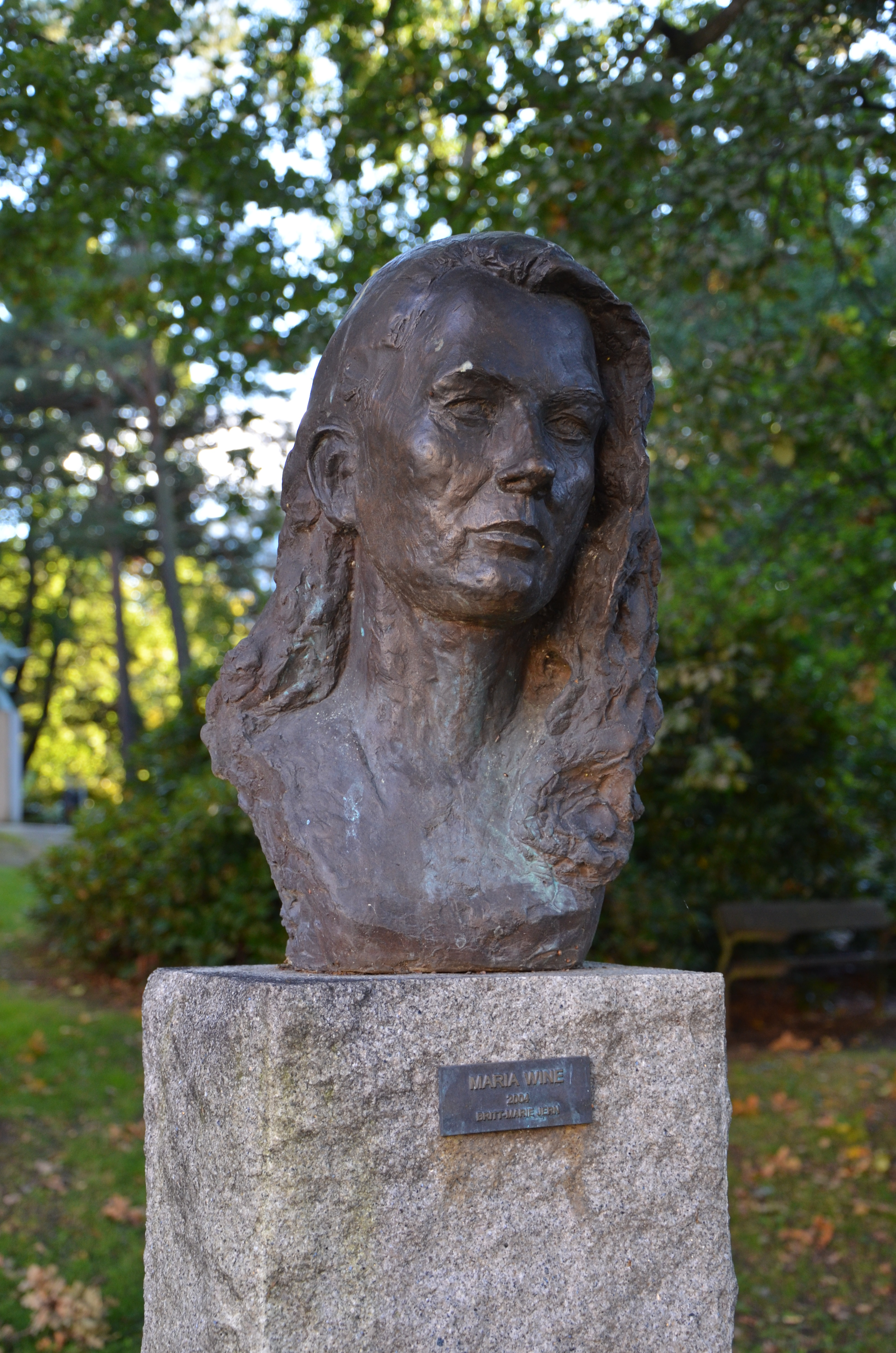 Britt-Marie Jerns byst över Maria Wine, brons, 2004 -05, Maria Wines park i Solna